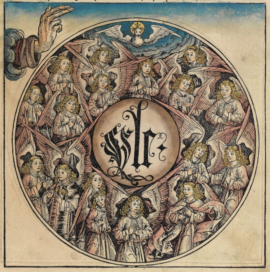 This is a part of a scan of an historical document: Title: Schedelsche Weltchronik or Nuremberg Chronicle